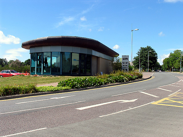 Entrance to the New Greenham Park. This business park is situated across a couple of squares. This entrance, near the memorial garden is in the northern half of the square. The square is characterised by commercial enterprises, farmland, residences, recreational facilities and the Peace Garden.